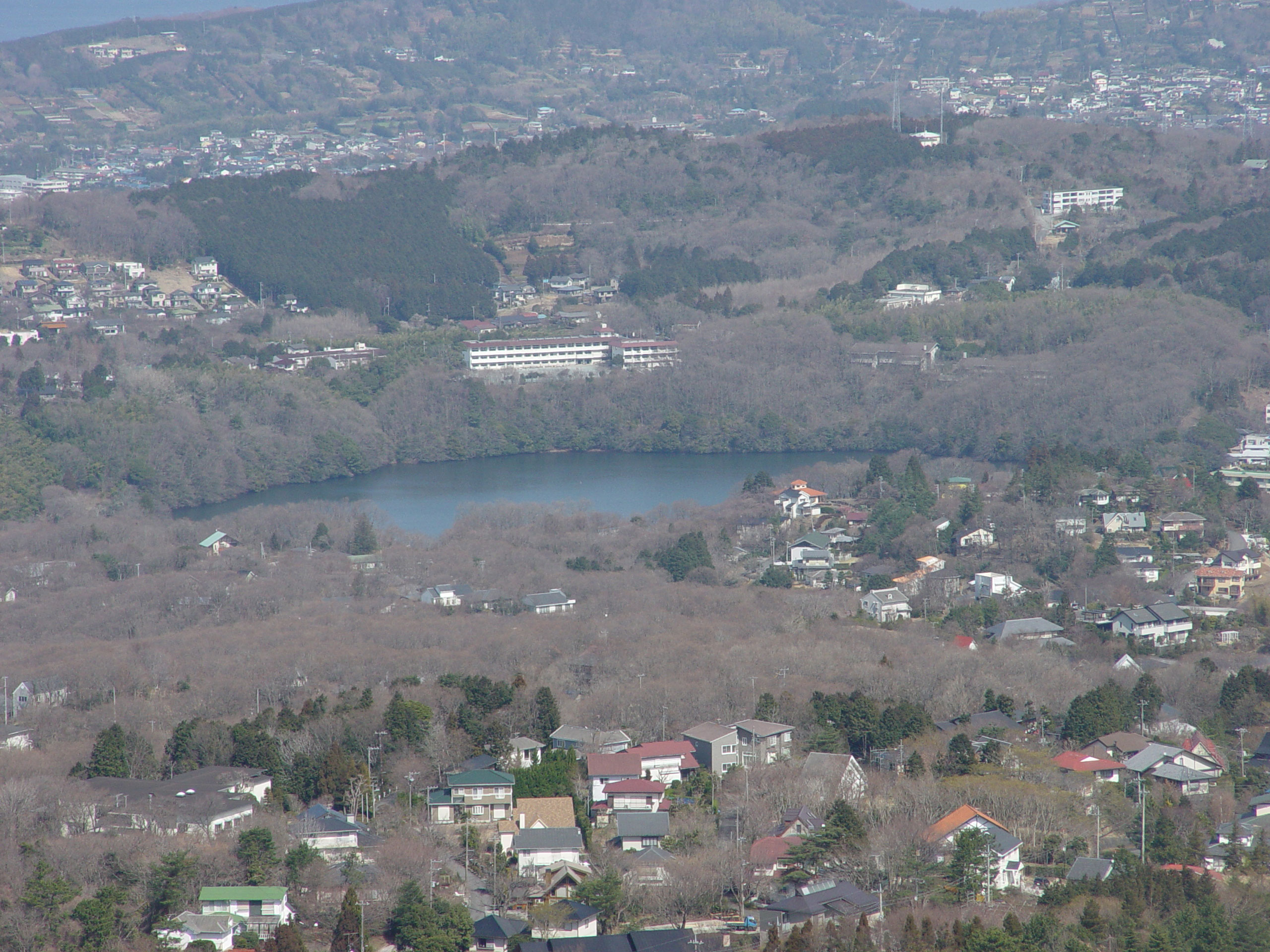 Lake Ippeki (ja), Ito city, Shizuoka prefecture, Japan.